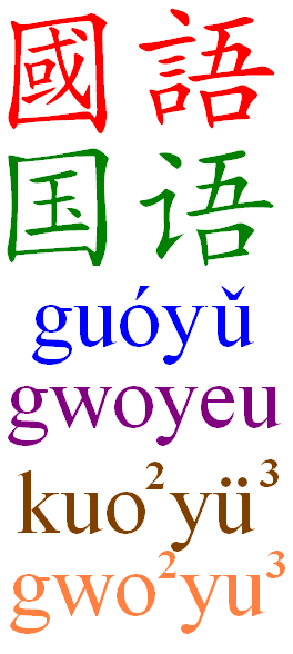 The Chinese word for "National language" (國語; Guóyǔ) written in Traditional and Simplified Chinese characters, followed by Hanyu Pinyin, Gwoyeu Romatzyh, Tongyong Pinyin and Wade-Giles romanizations.